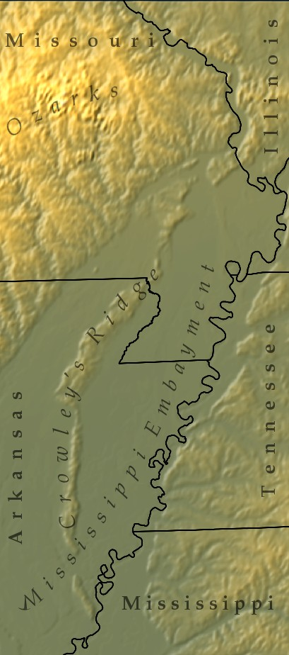 Shaded relief map of Crowley's Ridge in the Mississippi Embayment. Created from public domain data.